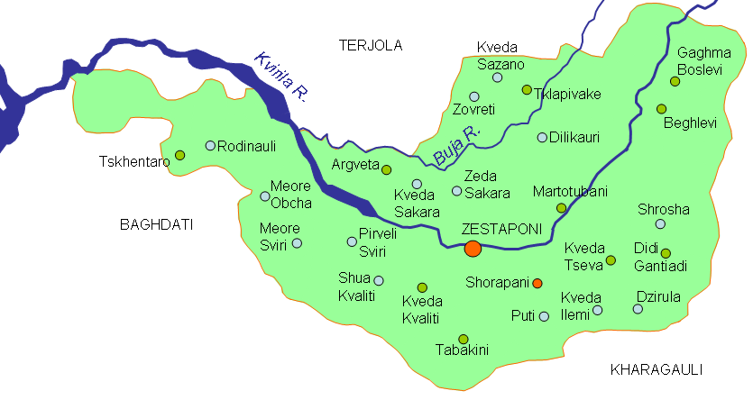 Sketch map of Zestafoni region in Georgia